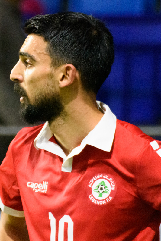 Mohamad Haidar at the Asian Cup 2019